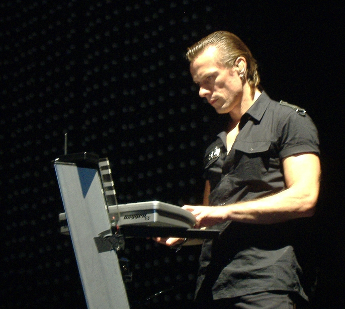 Larry Mullen Jr., flickr image obtained from [1] Attribution: "Clancy3434"